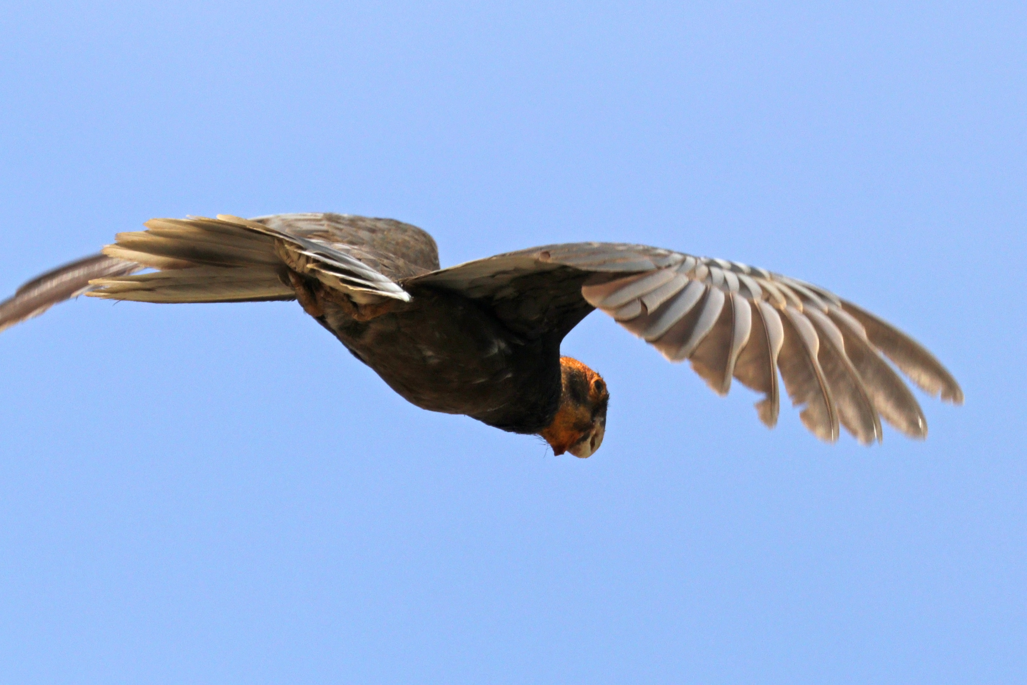 Greater vasa parrot (Coracopsis vasa drouardi) female, breeding plumage, in flight, Tsimanampetsotsa National Park, Madagascar